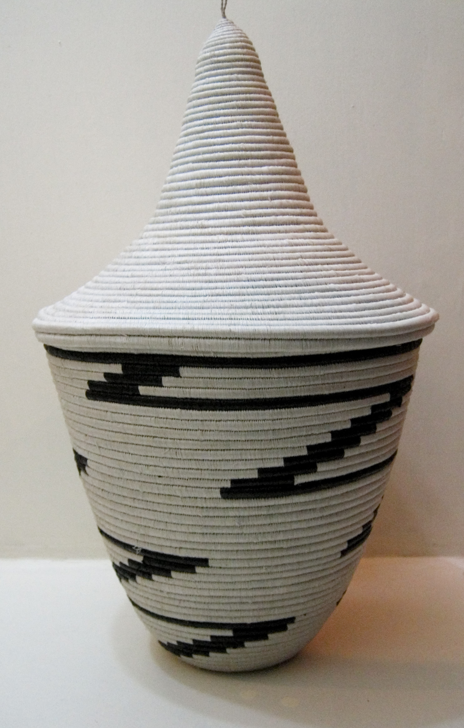 Igiseke, traditional Rwandan basket.